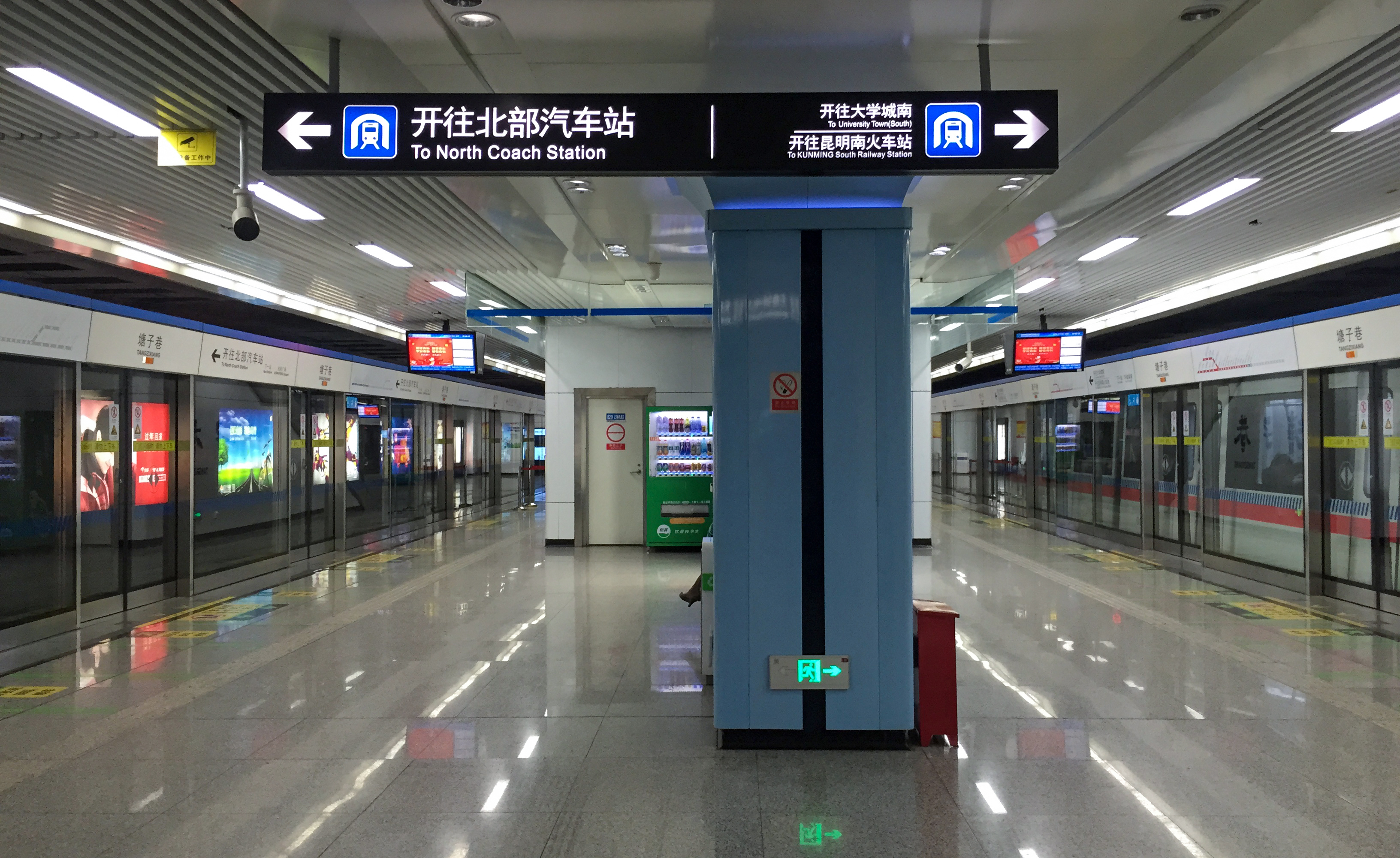 Currently lines 1 and 2 still run through trains. Line 6 platform will be at B3.